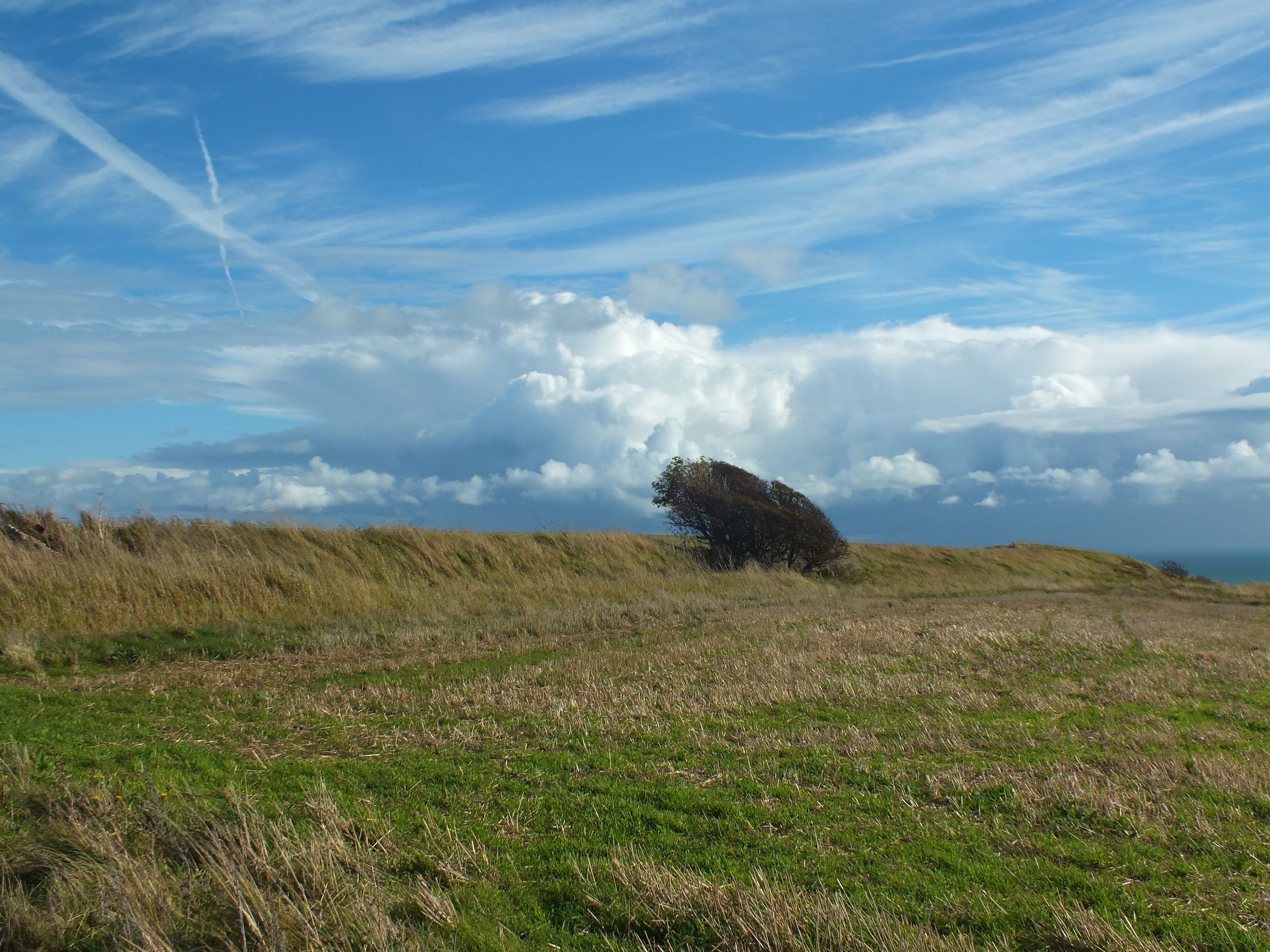 From Langdon Cliffs, east of Dover to South Foreland the cliffs rise 120 m. The chalk grassland on tops give views over the lighthouse and the English Channel.